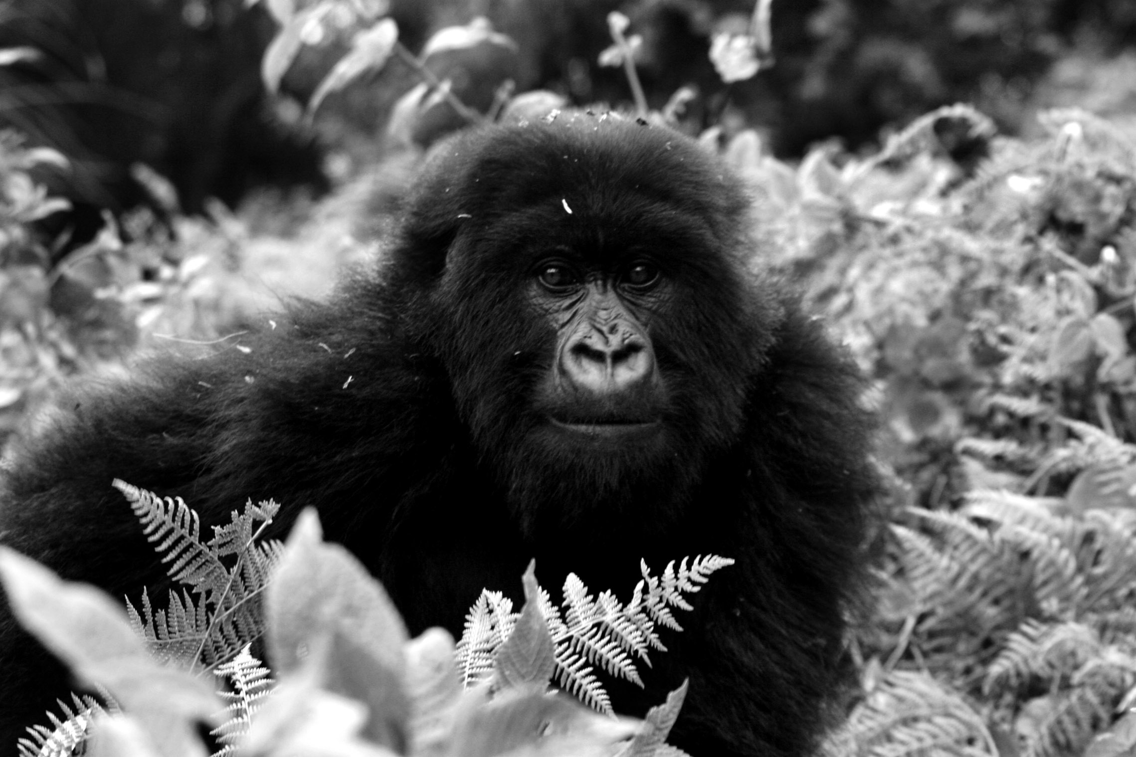 Mountain gorilla, Rwanda